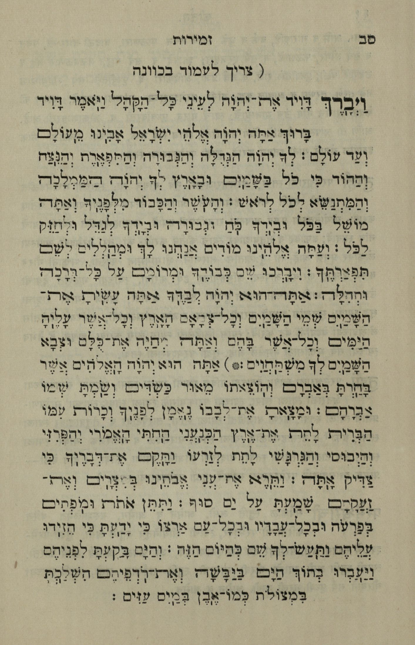 Jewish Prayer Book (Siddur) in Hebrew and Marathi , translated from Hebrew to Marathi in 1889 by Rajpurkar, Joseph Ezekiel